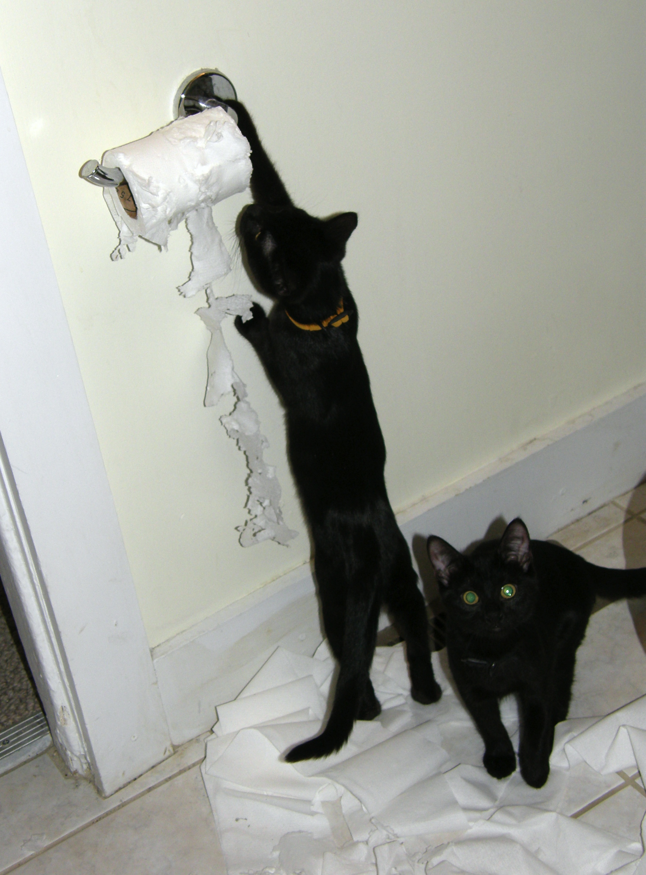 Two cats in a bathroom; Moxie attacks a roll of toilet paper; Mina looks back at the viewer. Original caption: 080212 honest "I was just coming to tell you. Honest!" Mina is such a tattletale.